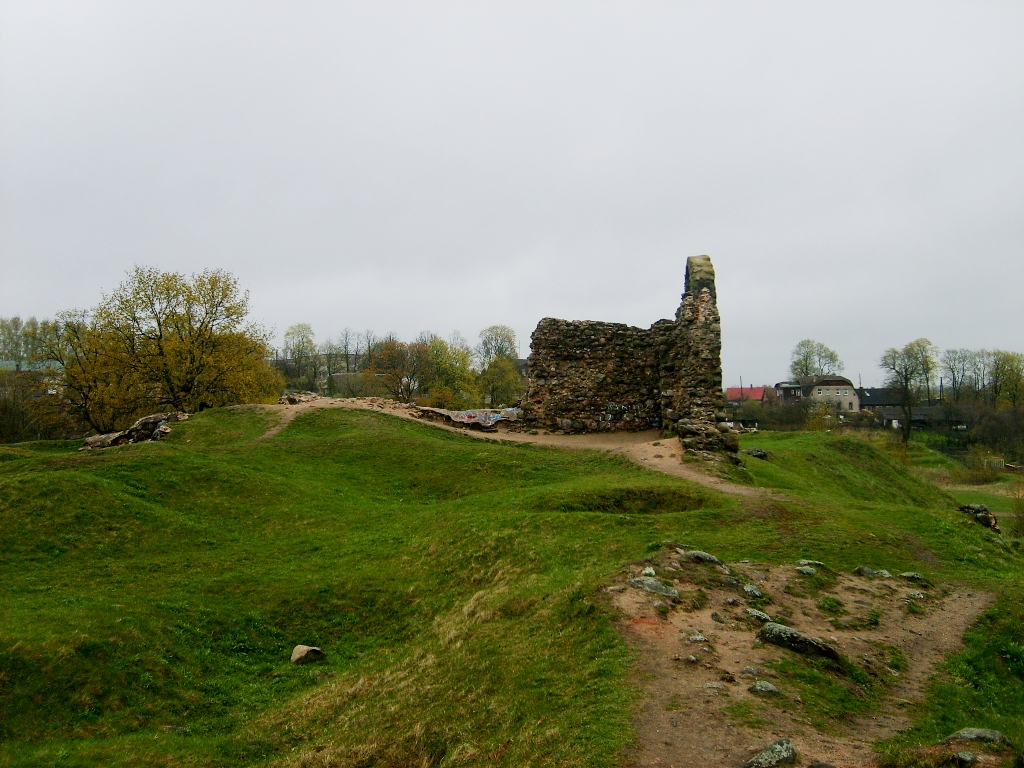 Castle ruins in Rezekne, Latvia.